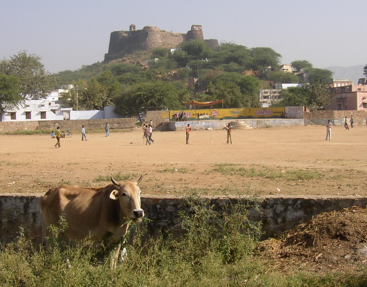 Fort in Thanagazi (Alwar district) in Rajasthan, India